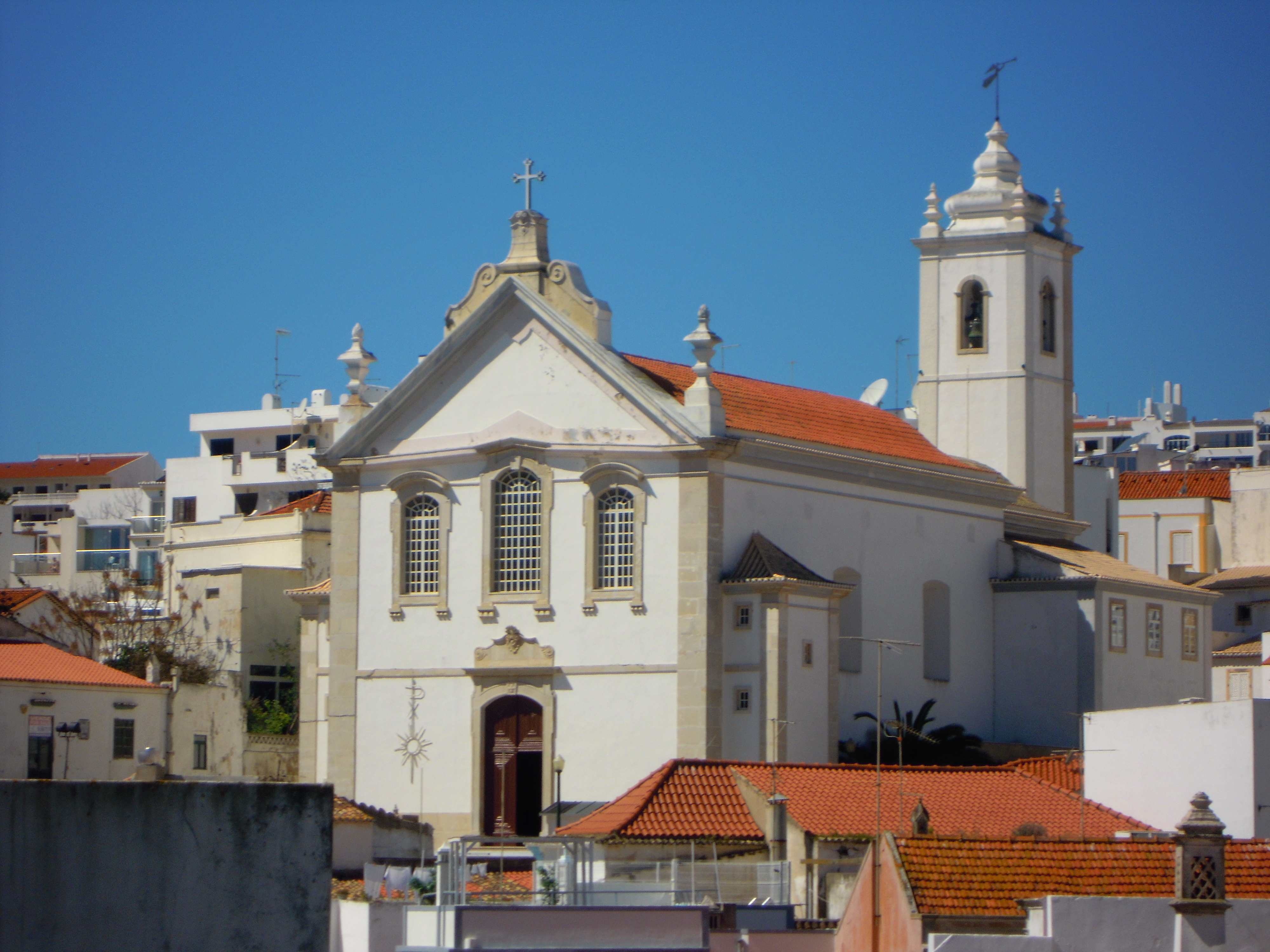 A view across to Igreja Matriz (Mother Church of Albufeira) from the Rua Joãn Bailote, Albufeira old town, Algarve, Portugal..